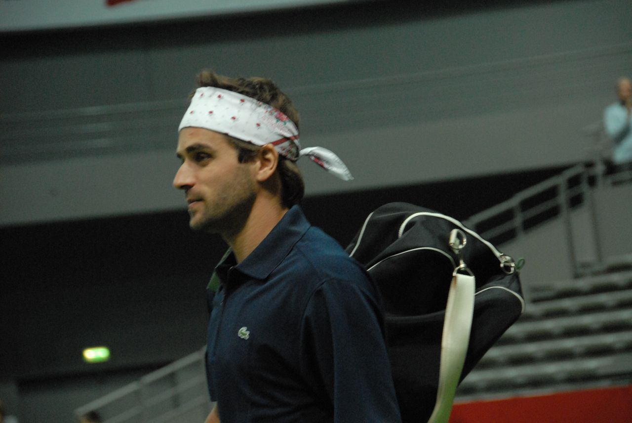 Arnaud Clément at the 2008 Masters France tennis exhibition